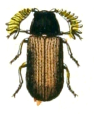 Ptilinus pectinicornis, from Calwer's Käferbuch, Table 29, Picture 13. Taxonomy was updated to 2008, using mostly the sites Fauna Europaea and BioLib. Please contact Sarefo if the determination is wrong!